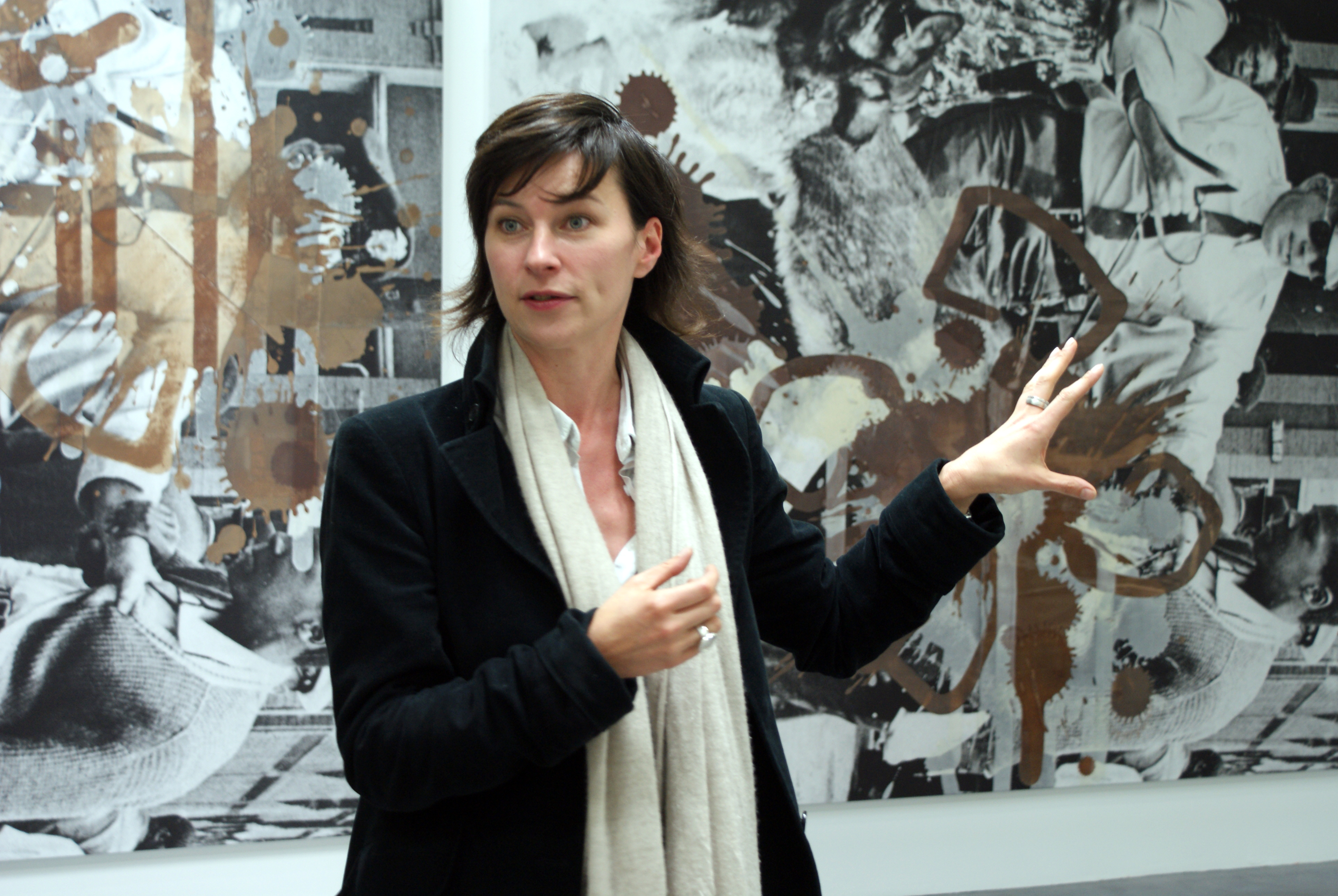 Chief curator Anne Pontégnie at Kelley Walker's exhibition (Wiels contemporary art center, Brussels, B).